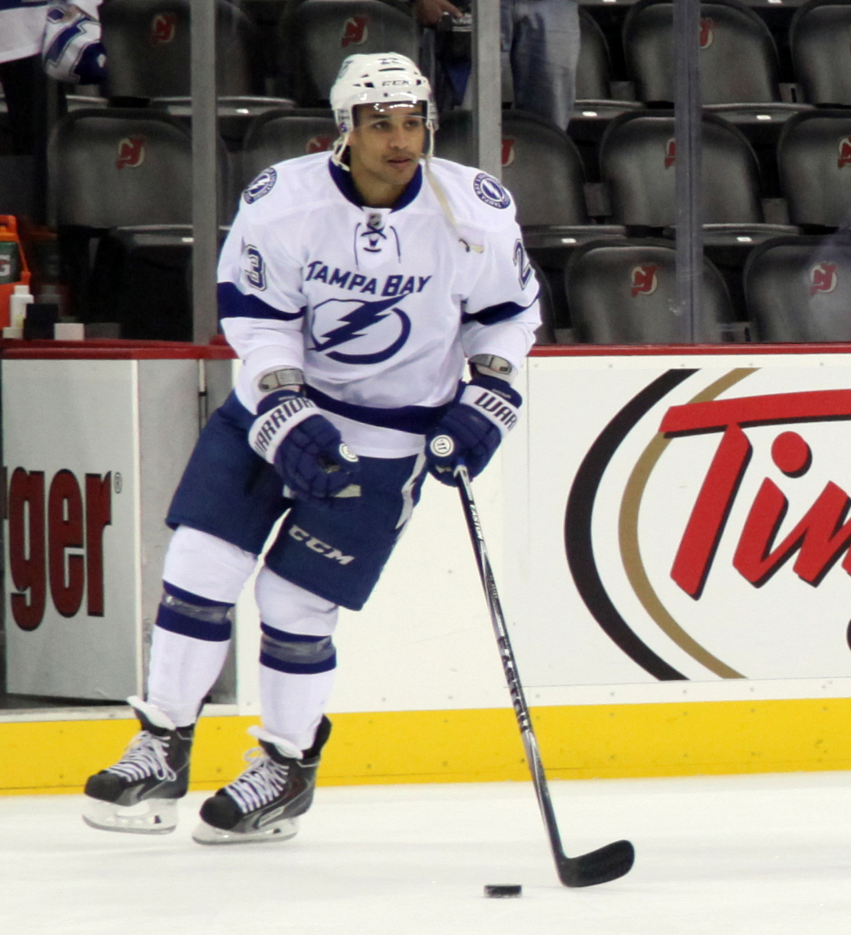 J. T. Brown in December 2014.